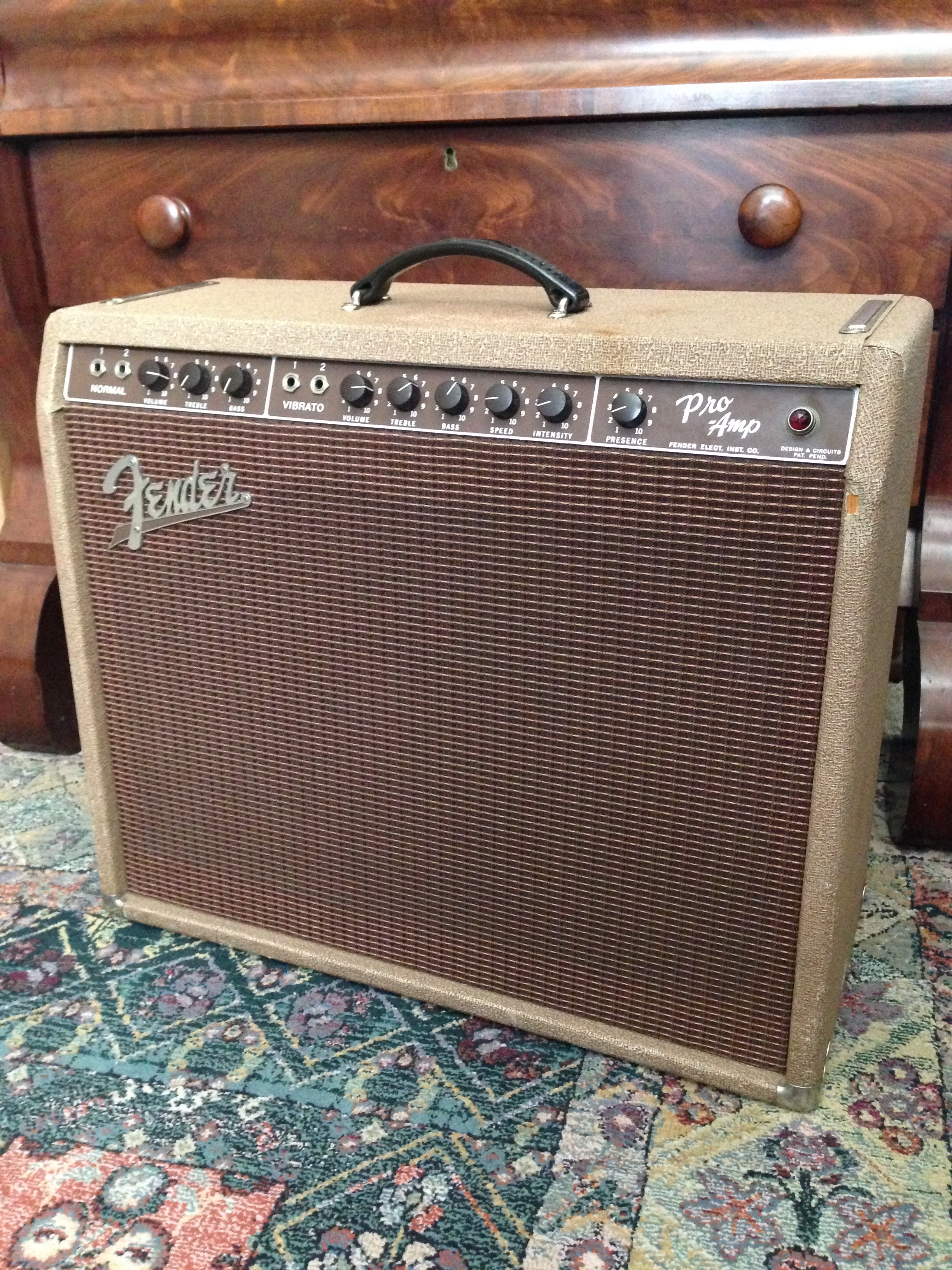 Mid-1960 Fender Pro Amp, Model 5G5, single 15" Jensen Alnico P15N speaker, 40 watts nominal output.